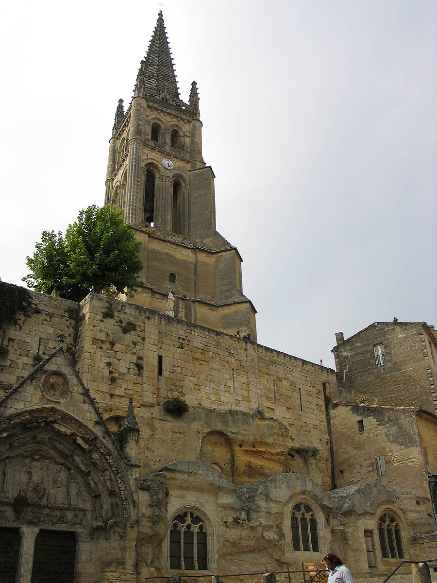 Église monolithe (Felsenkirche), Saint-Émilion, Frankreich, France Photograph Luidger (31. August 2005)